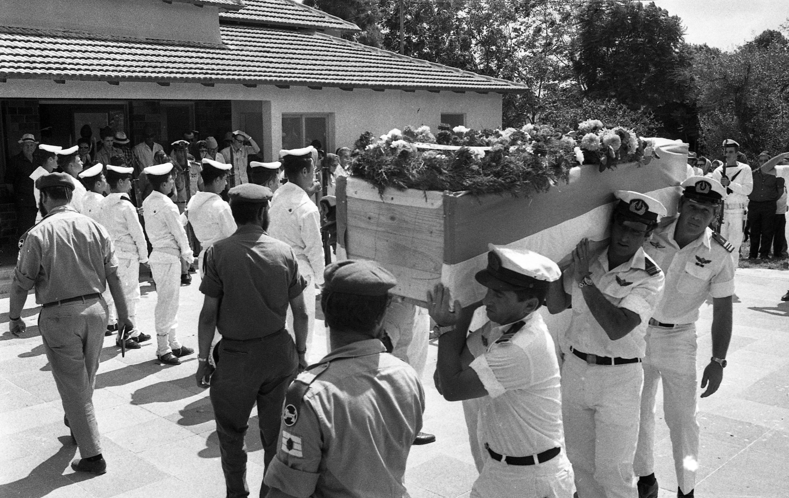 Funeral of Raphael Milo Melnik who died in the Shayetet 13 special navy unit's action in Egypt.